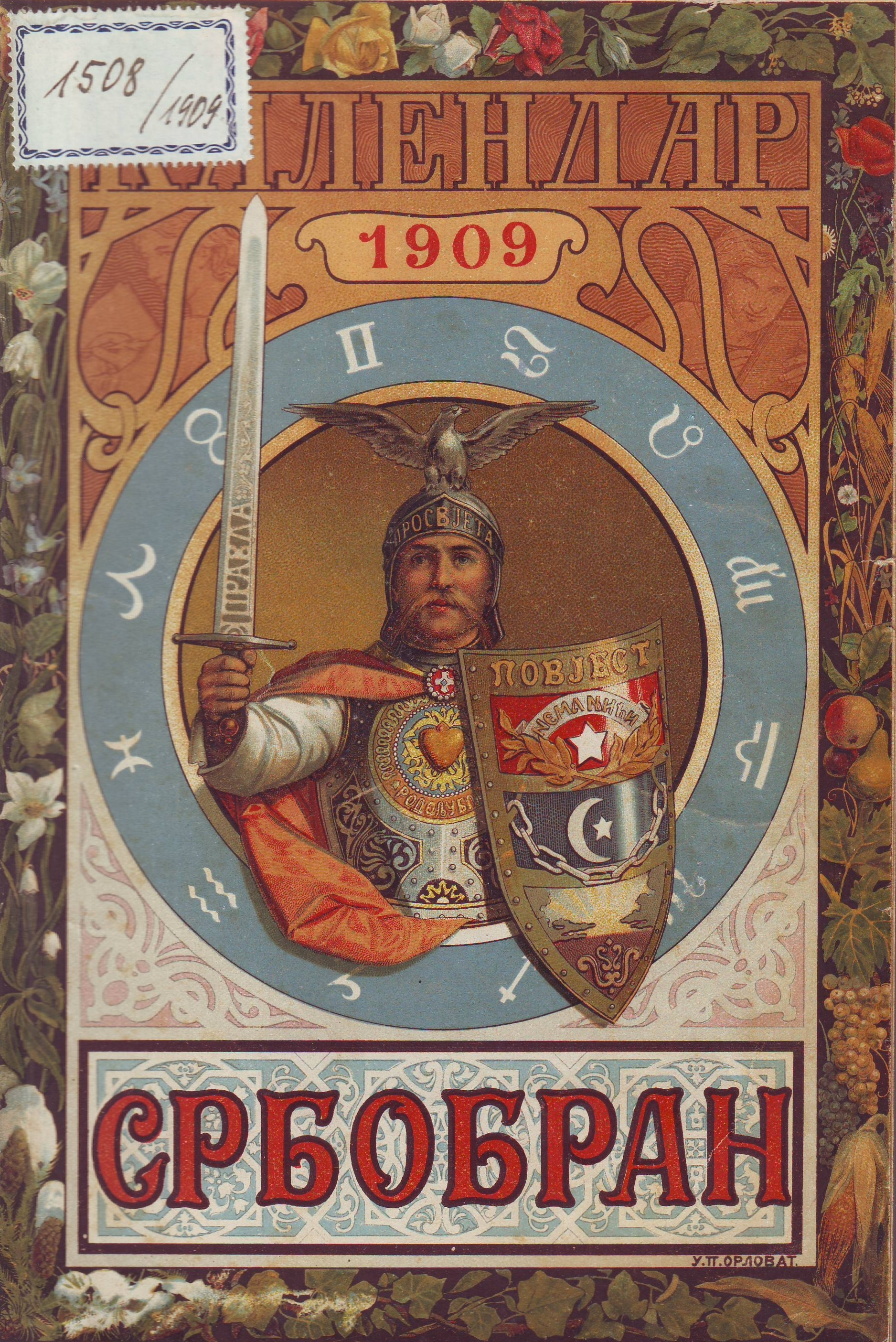 The front page of the 1909 edition of the People's Serbian Calendar Srbobran. Srpski (latinica): Naslovna strana izdanja Narodnog srpskog kalendara Srbobran za 1909. godinu.